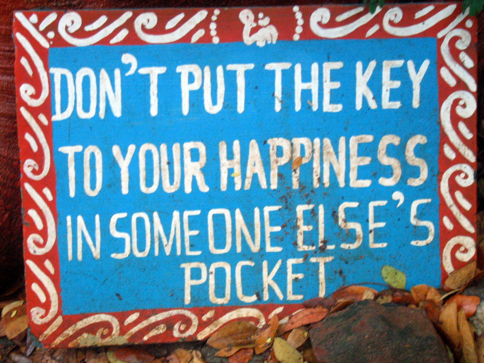 A roadside quotation, near Coimbatore, India.